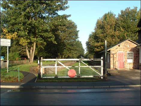 Stamford Bridge, East Riding of Yorkshire, England.Old Level crossing over abandoned Railway line at the former station.